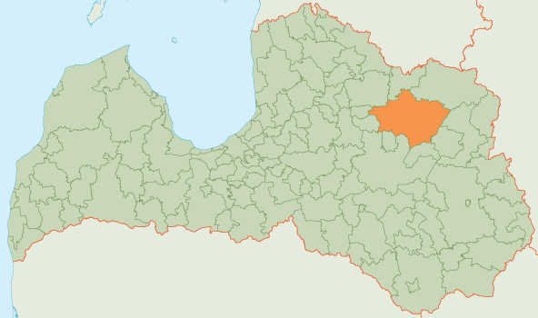 Map of Gulbene